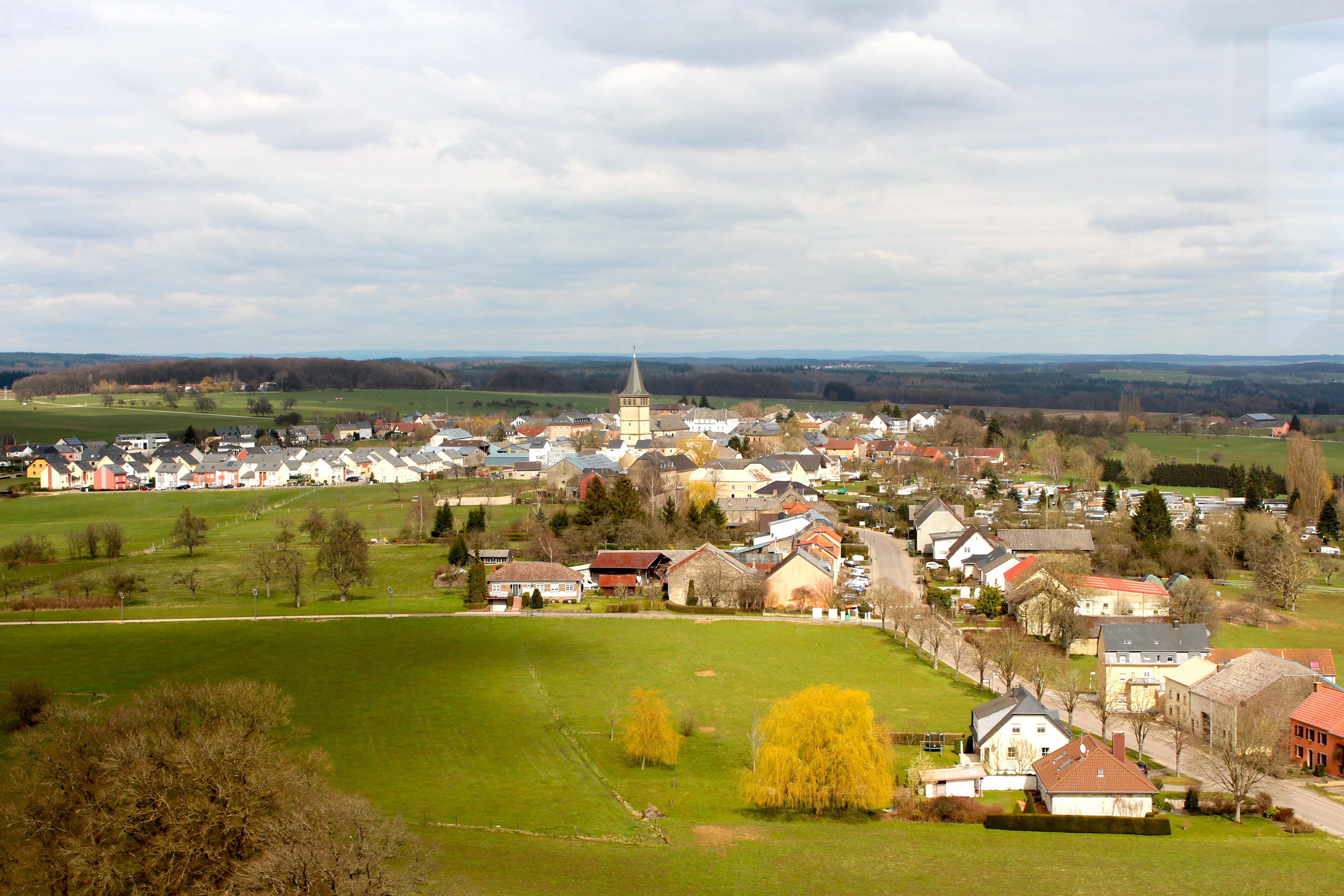 View of Berdorf, Luxembourg, from Aquatower.